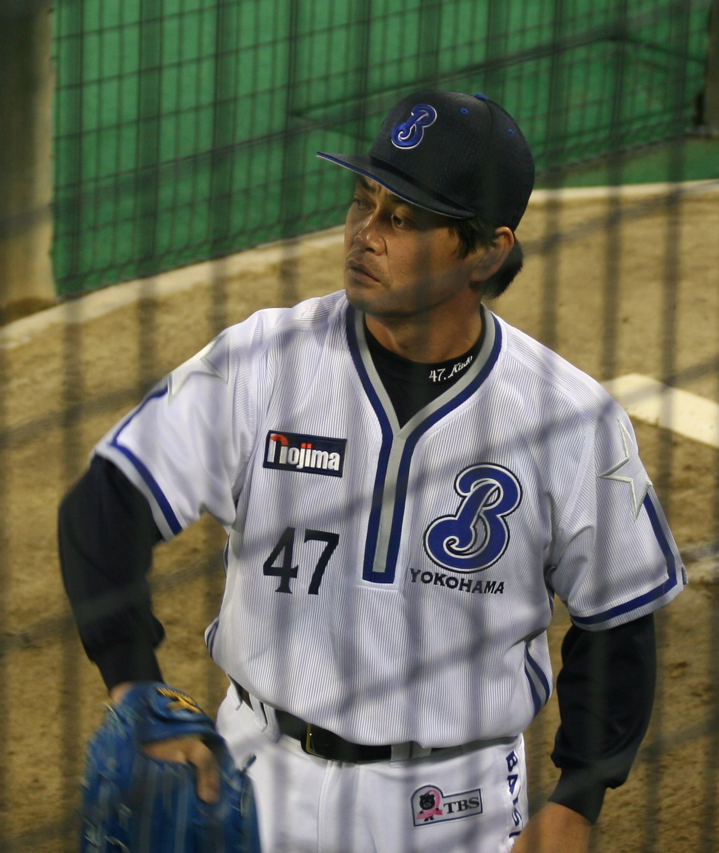 Kimiyasu Kudoh, pitcher of the Yokohama BayStars, at Nagano Olympic Stadium.